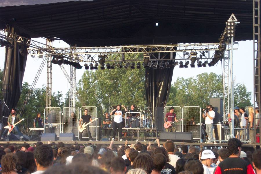 Hamlet in the Tintorrock Festival 2003 in Aranda de Duero